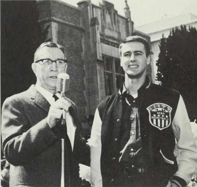 Photograph of UCLA basketball player Gail Goodrich